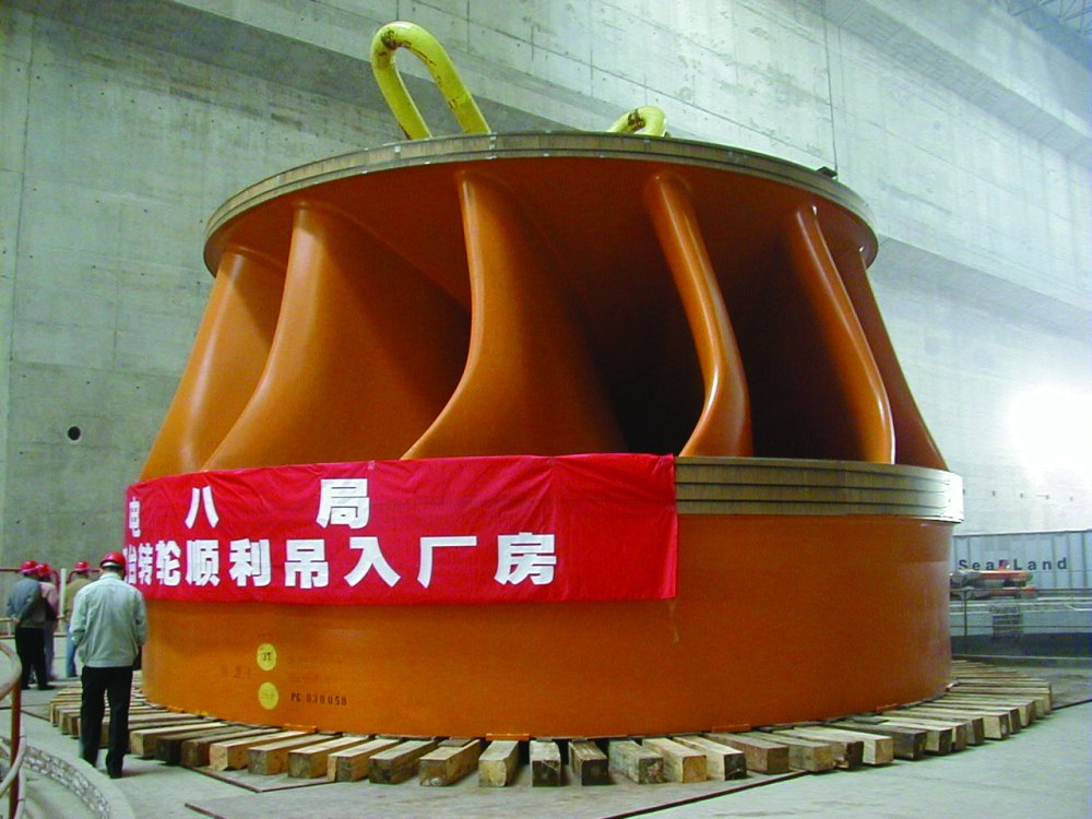 Runner of a Francis turbine used for the Sanxia (Three Gorges Dam) power plant, China. Published with the friendly permission by Voith-Siemens, Germany